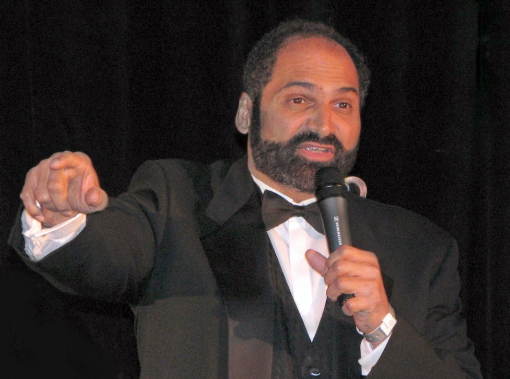 Franco Harris speaking an a rally for Barack Obama in January 2009.